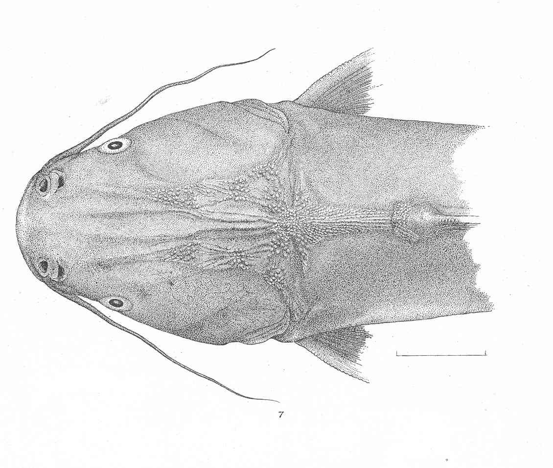 Galeichthys xenauchen Gilbert. Type specimen; Panams Subject: Catfishes, Galeichthys Tag: Fish